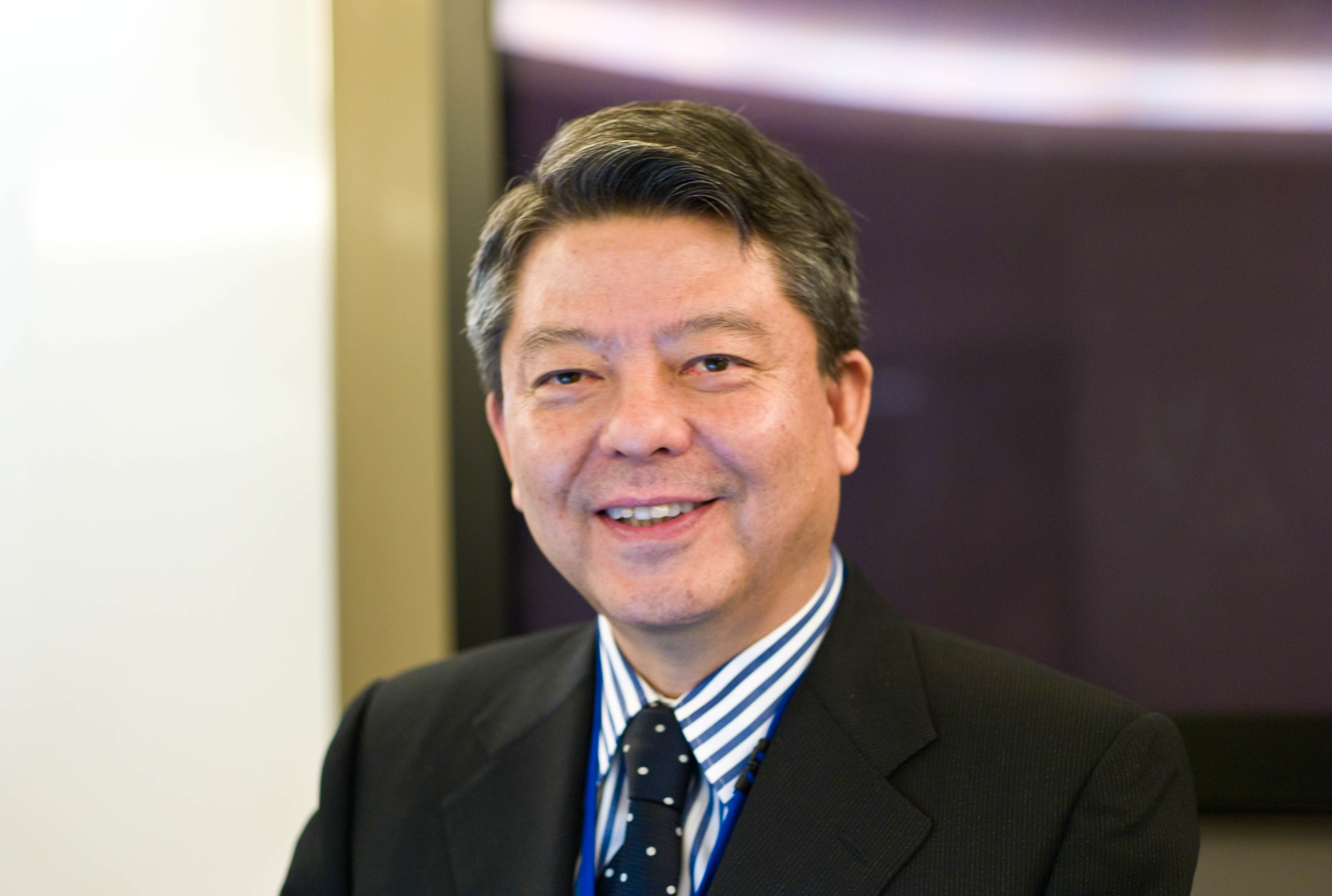 Hiroshi Yanai.